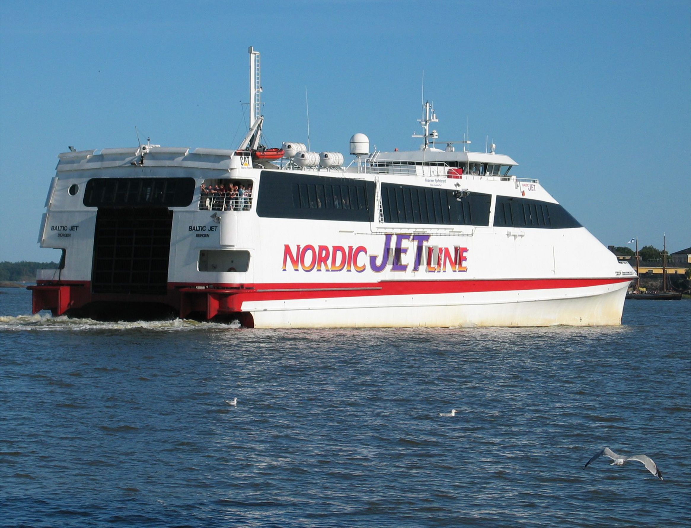 HSC Baltic Jet, home port Bergen. Shot in Helsinki 2005. IMO number: 9198551 Callsign: LALY5 Length: 60 m Beam: 16 m